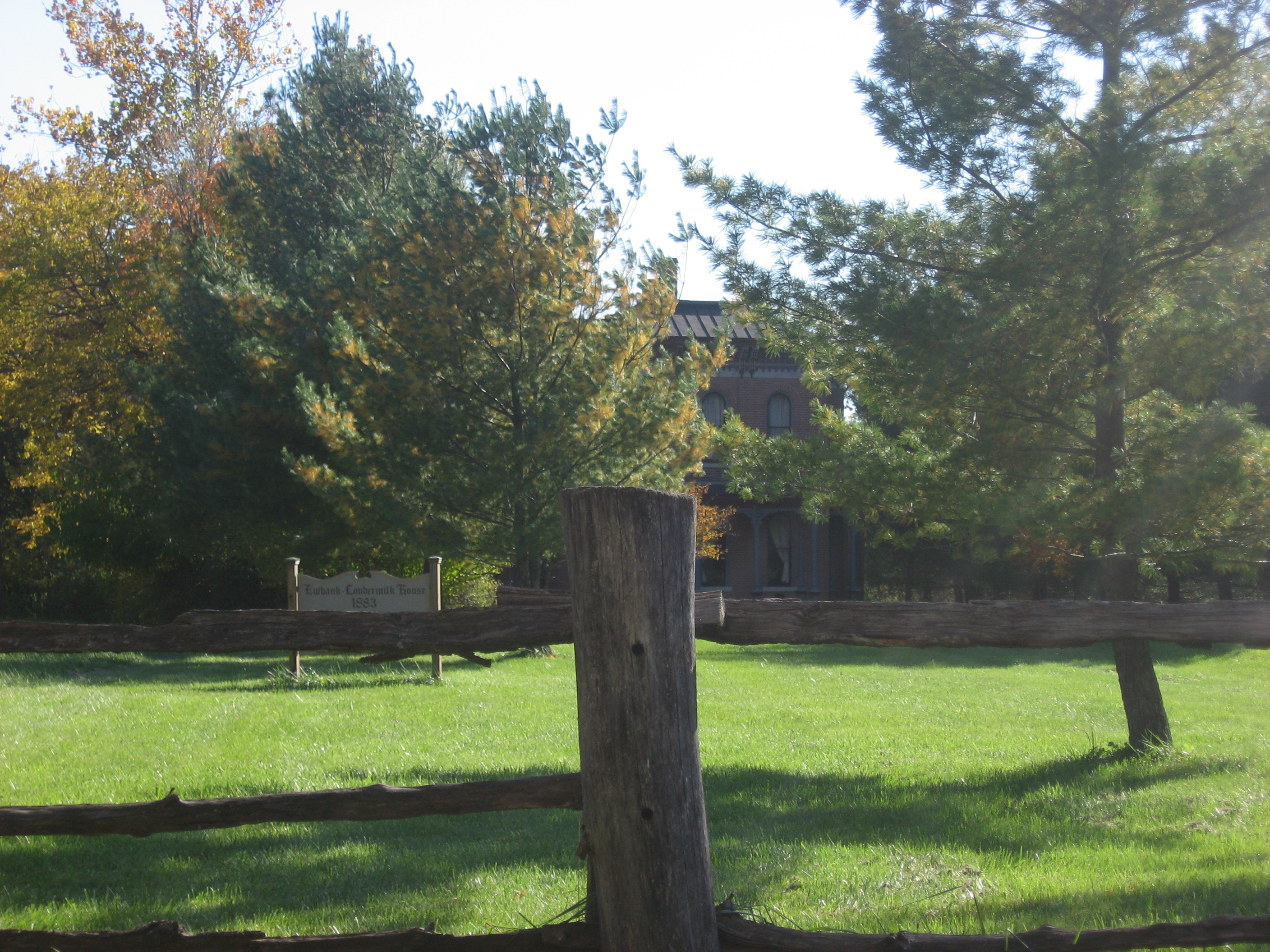 Roadside view of the Lancelot C. Ewbank House, located on County Road 102 east of Tangier in Sugar Creek Township, Parke County, Indiana, United States. Built in 1883, it is listed on the National Register of Historic Places. Due to the placement of trees and fenceposts, a better angle could not be obtained.